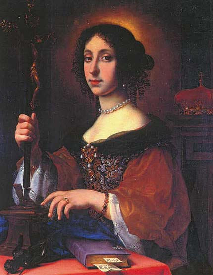 Portrait of Claudia Felicitas of Austria (1653-1676)